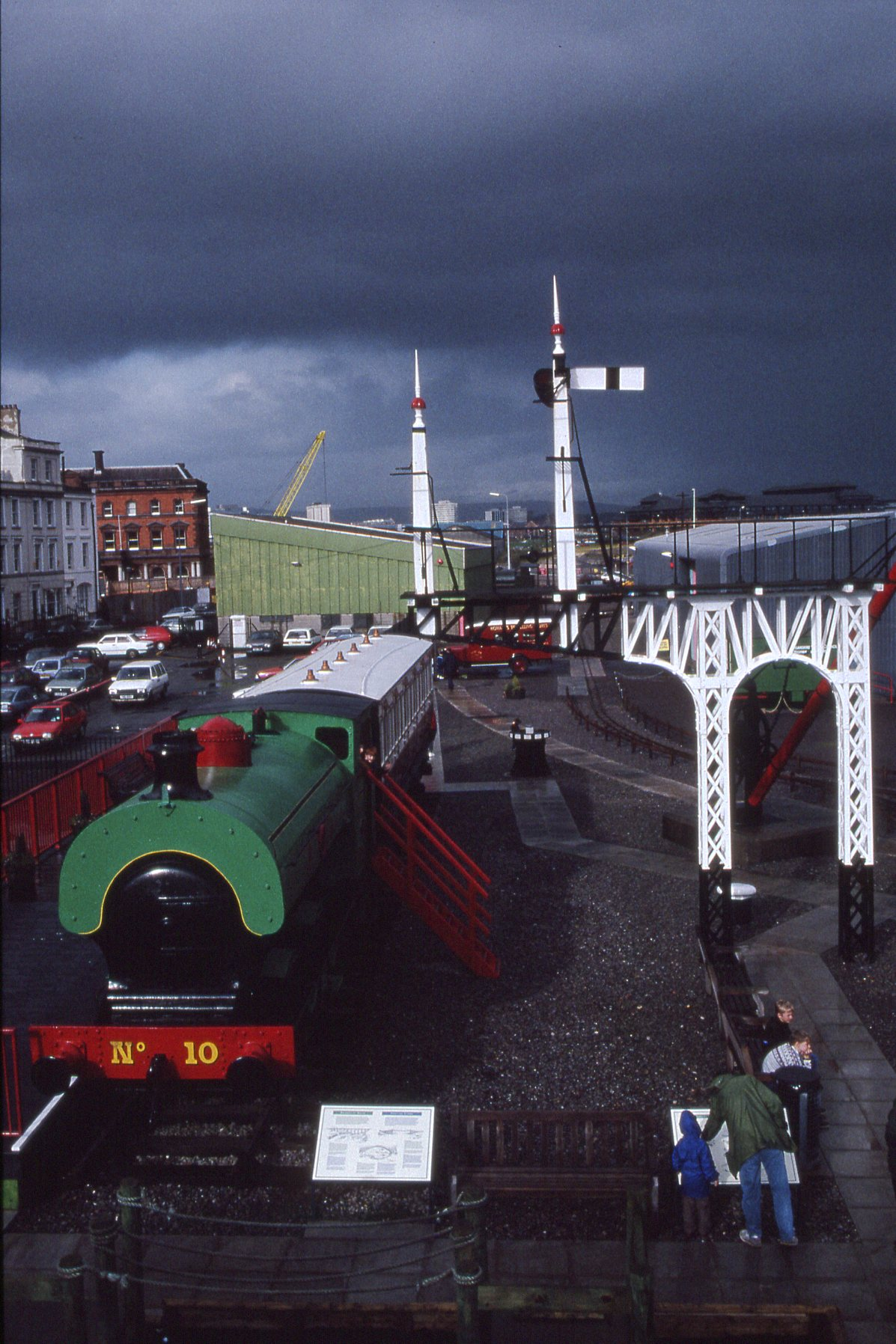 Hudswell Clarke 0-6-0T 544 (1900) Welsh Industrial & Maritime Museum, Cardiff 28.10.1992 (1)